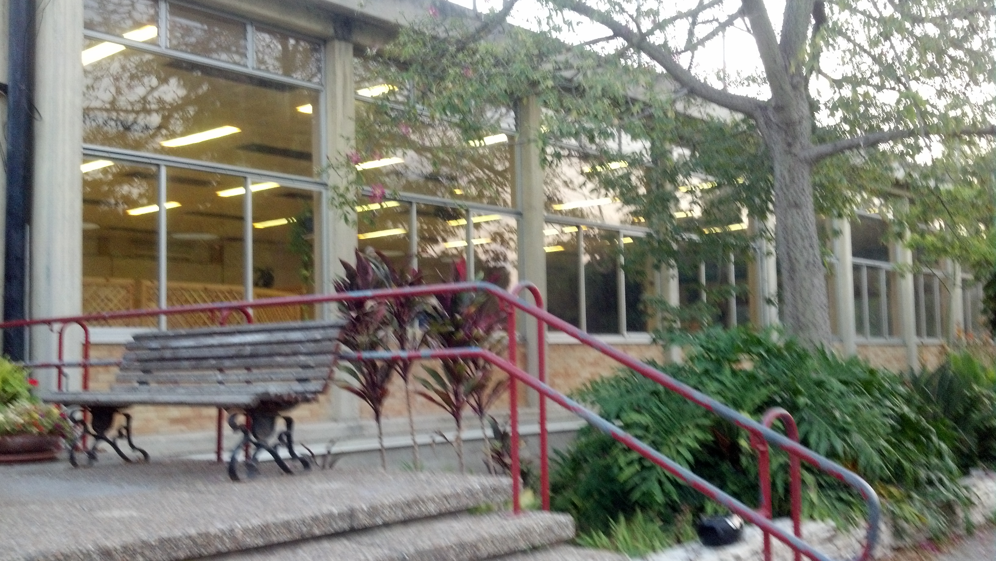 Dining hall at Kibbutz Kfar Masaryk